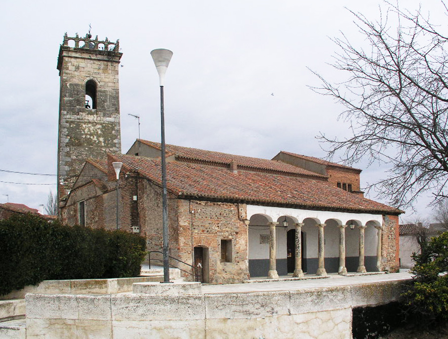 Usanos, Provincia de Guadalajara, Castilla-La Mancha, Spain. Iglesia. The photo was taken the 8th of April 2004 by Håkan Svensson (Xauxa)